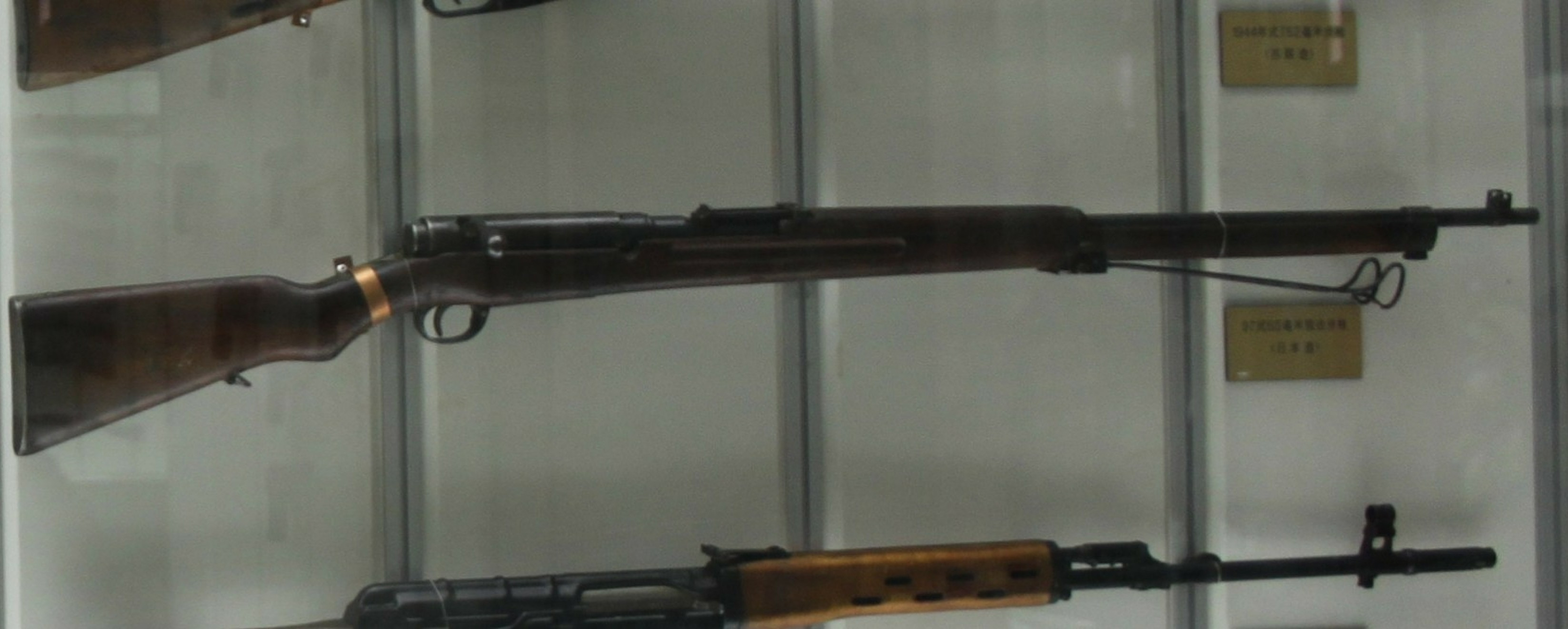 type99 Rifle (long)